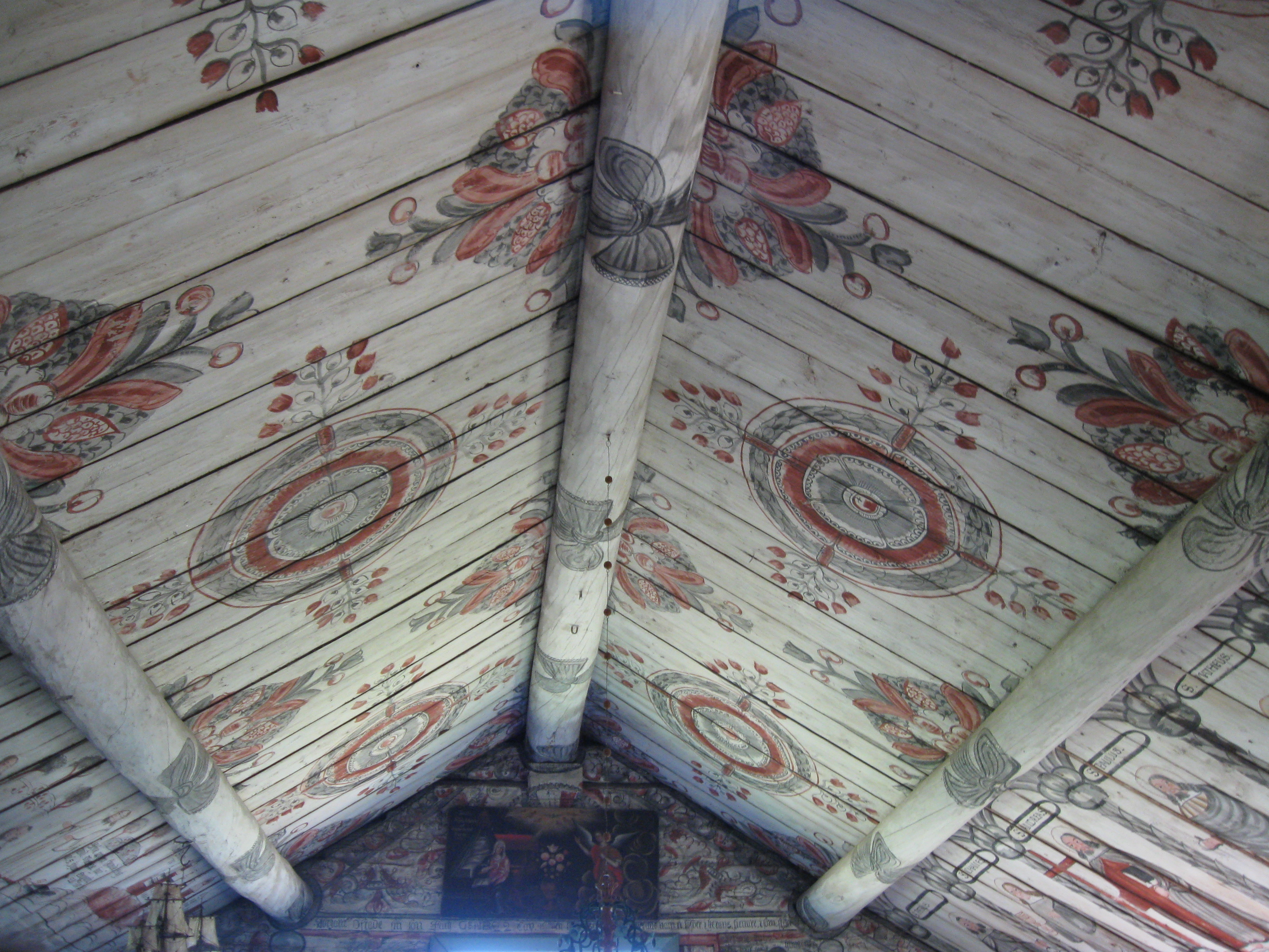 Inner roof of the Ulvö chapel, Sweden